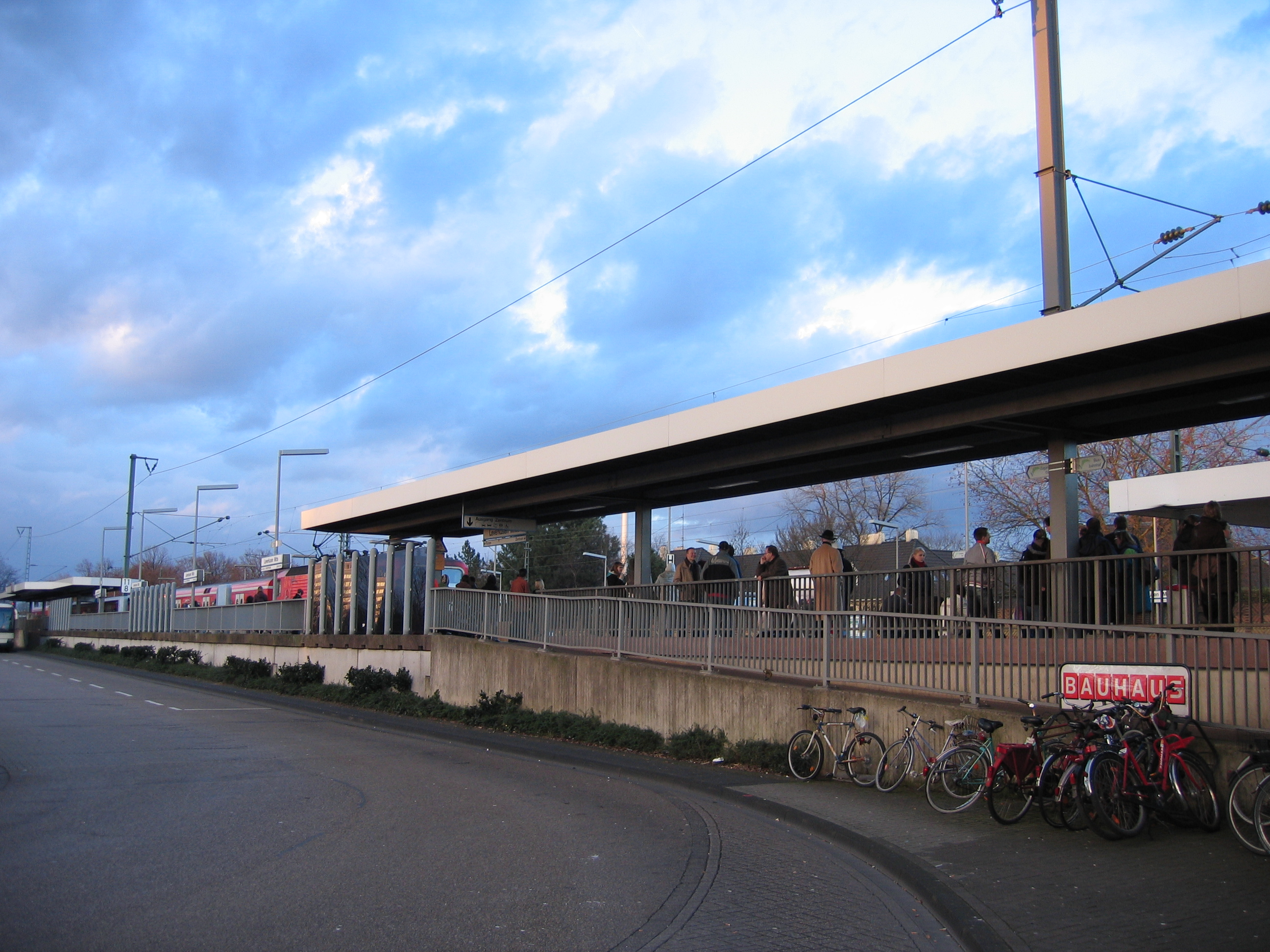 Train station in Leverkusen Mitte, Germany